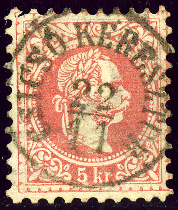 Austrian KK 5 kreuzer stamp, issue 1867, cancelled Csicso Keresztur in Transylvania (Romania).